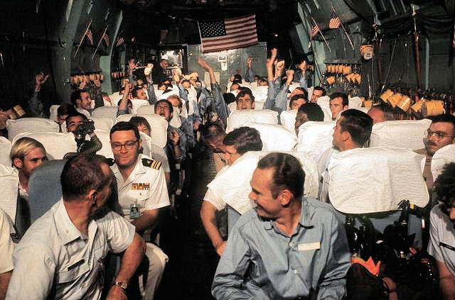 Recently released United States POWs from North Vietnamese prision camps being flown on-board the "Hanoi Taxi" (C-141A 66-0177) from Hanoi, North Vietnam to Clark Air Base, Phillipines